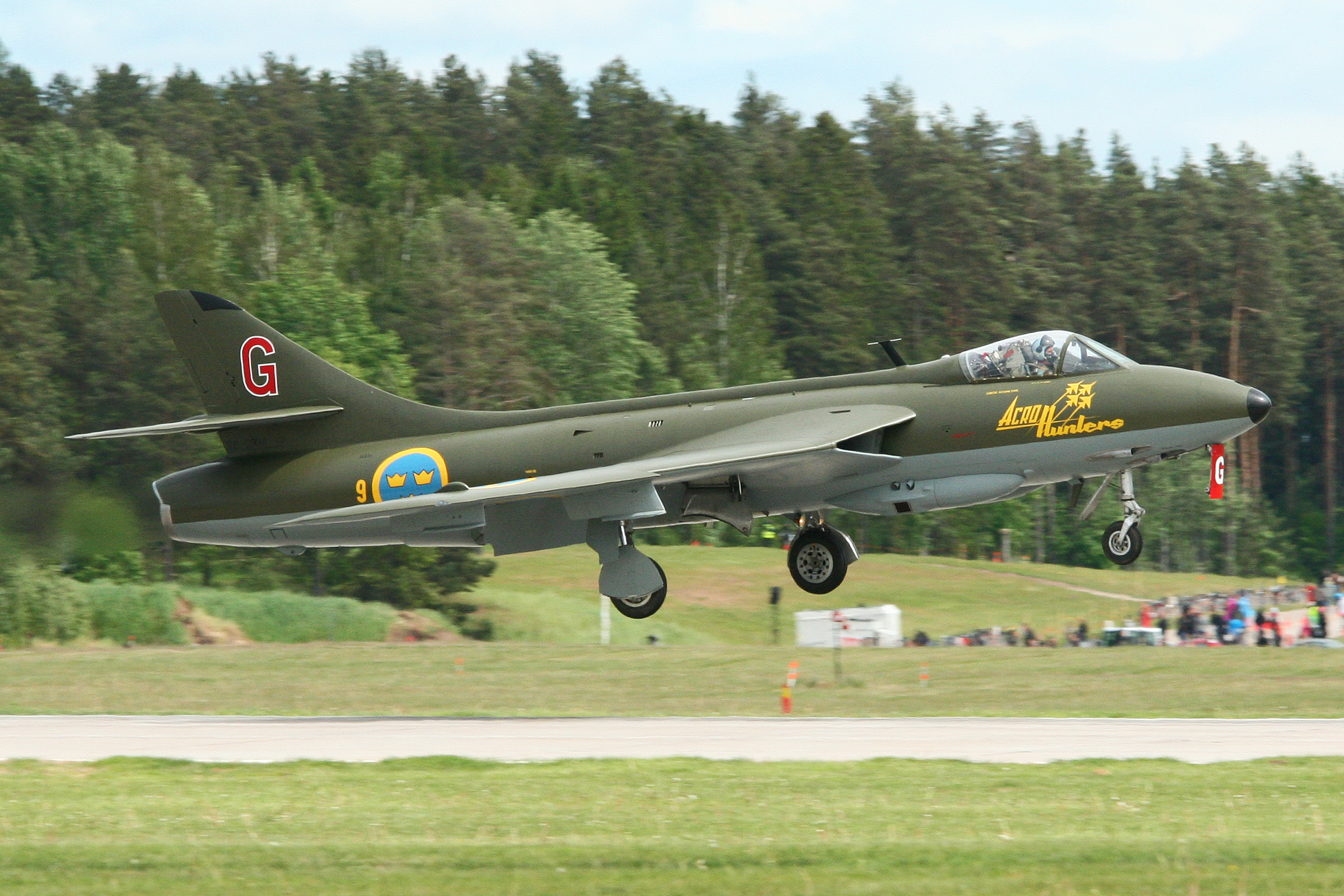 Landing after flying as a pair with Lansen 32620. Operated by the Swedish AF Heritage Flight. Actually ex Swiss AF 'J-4082'. msn 41H-697449. 2012 Malmen Airshow, Sweden. 03-06-2012